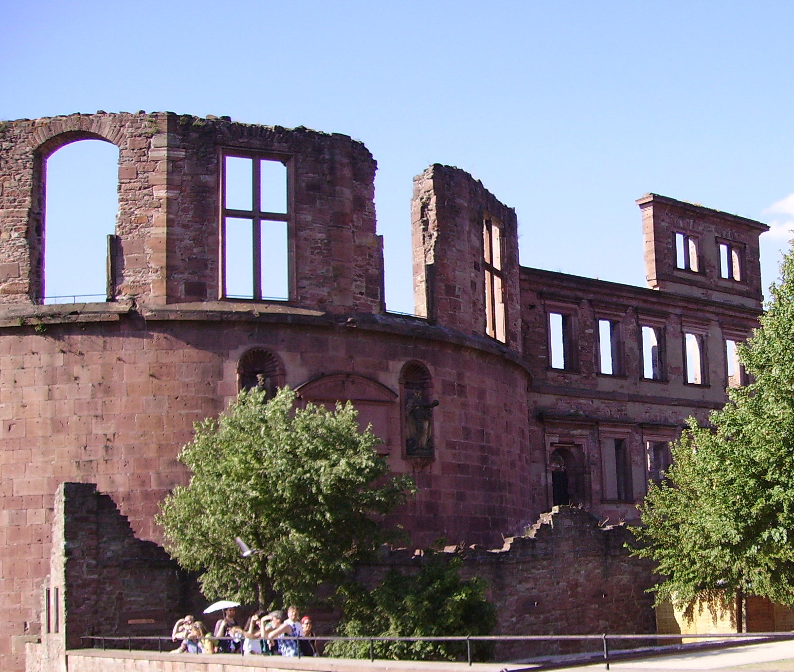 part of Heidelberg castle (Heidelberger Schloss)